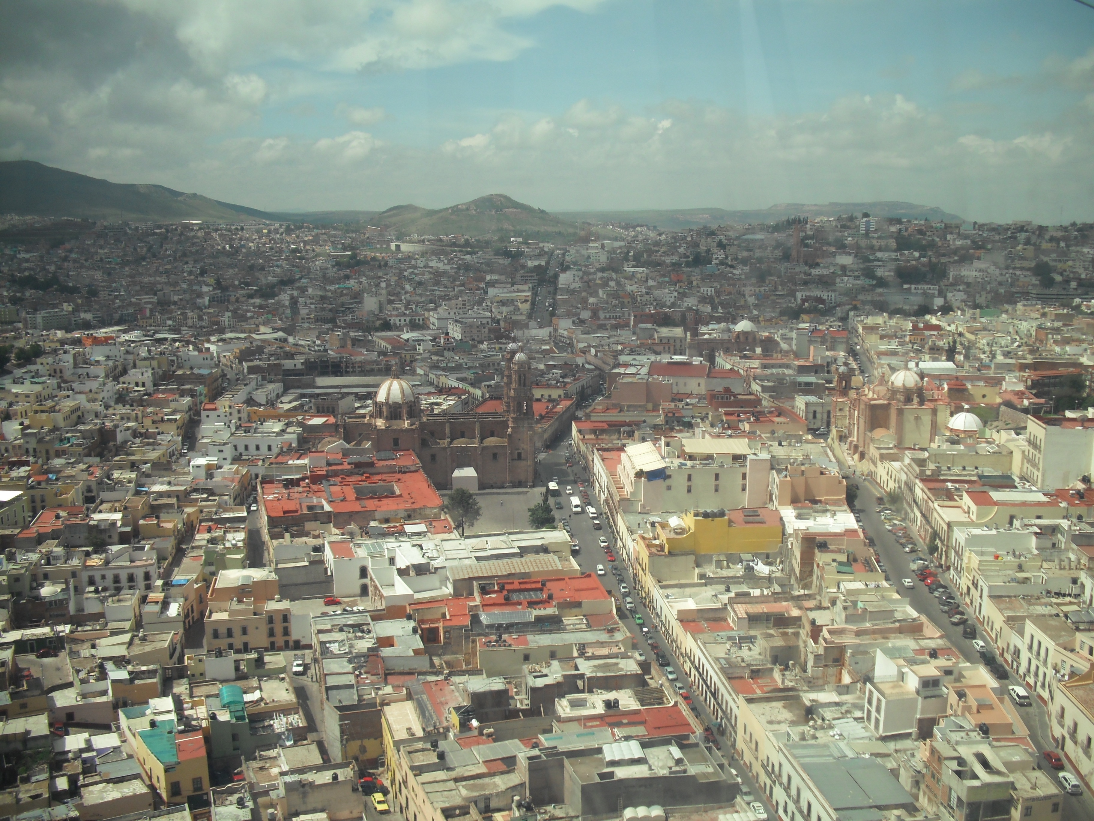 View of Zacatecas from the cable-car